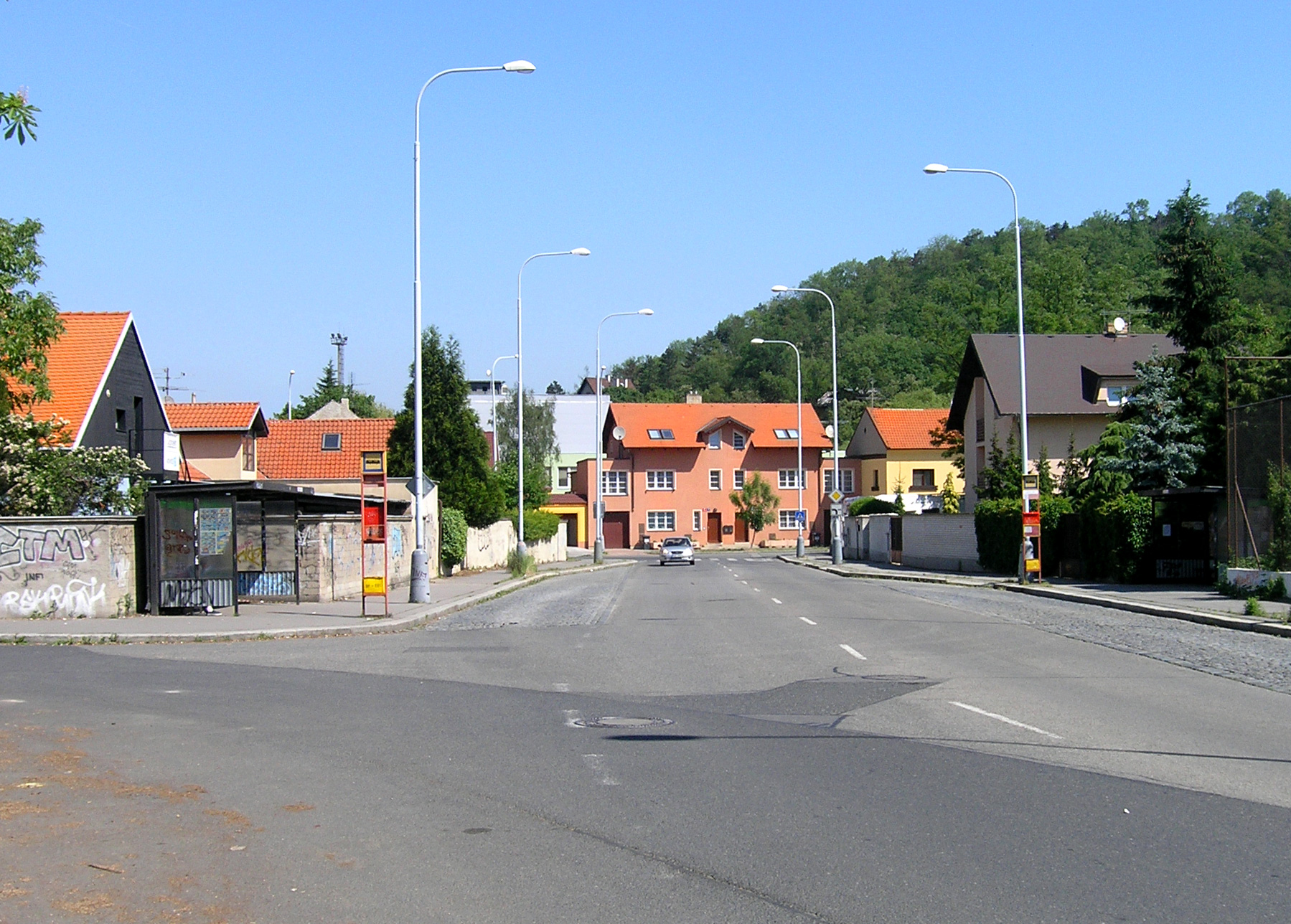 V Mokřinách street at Hodkovičky, Prague